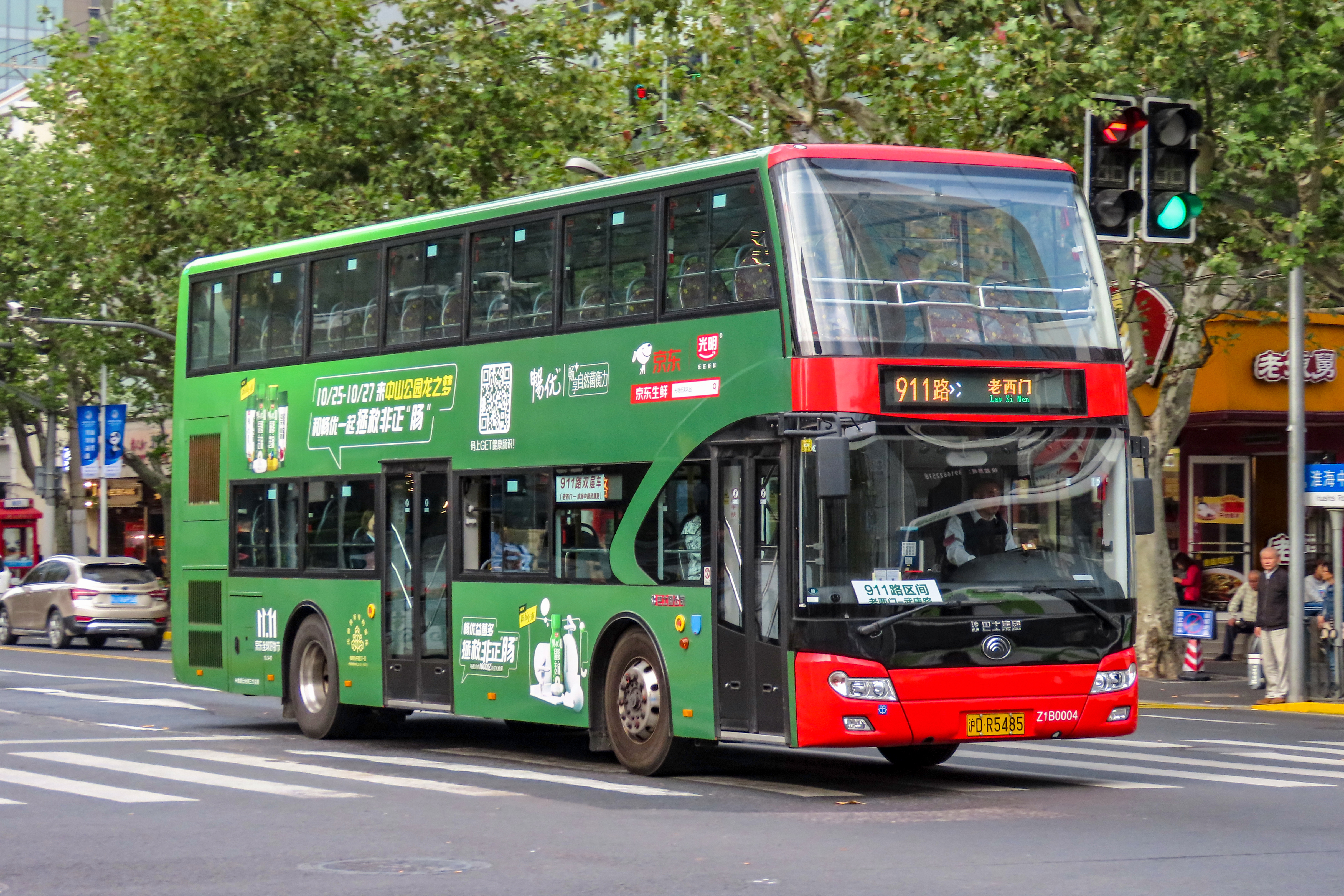 Another double-decker 911, this one with Bright Yoghurt advertisement. This route was opened in 1993 with second-hand Metsec-bodied Leyland Atlanteans imported from Singapore Bus Service, running from Shanghai Zoo to Laoximen. Domestic double-decker buses replaced those Atlanteans in circa 1996.